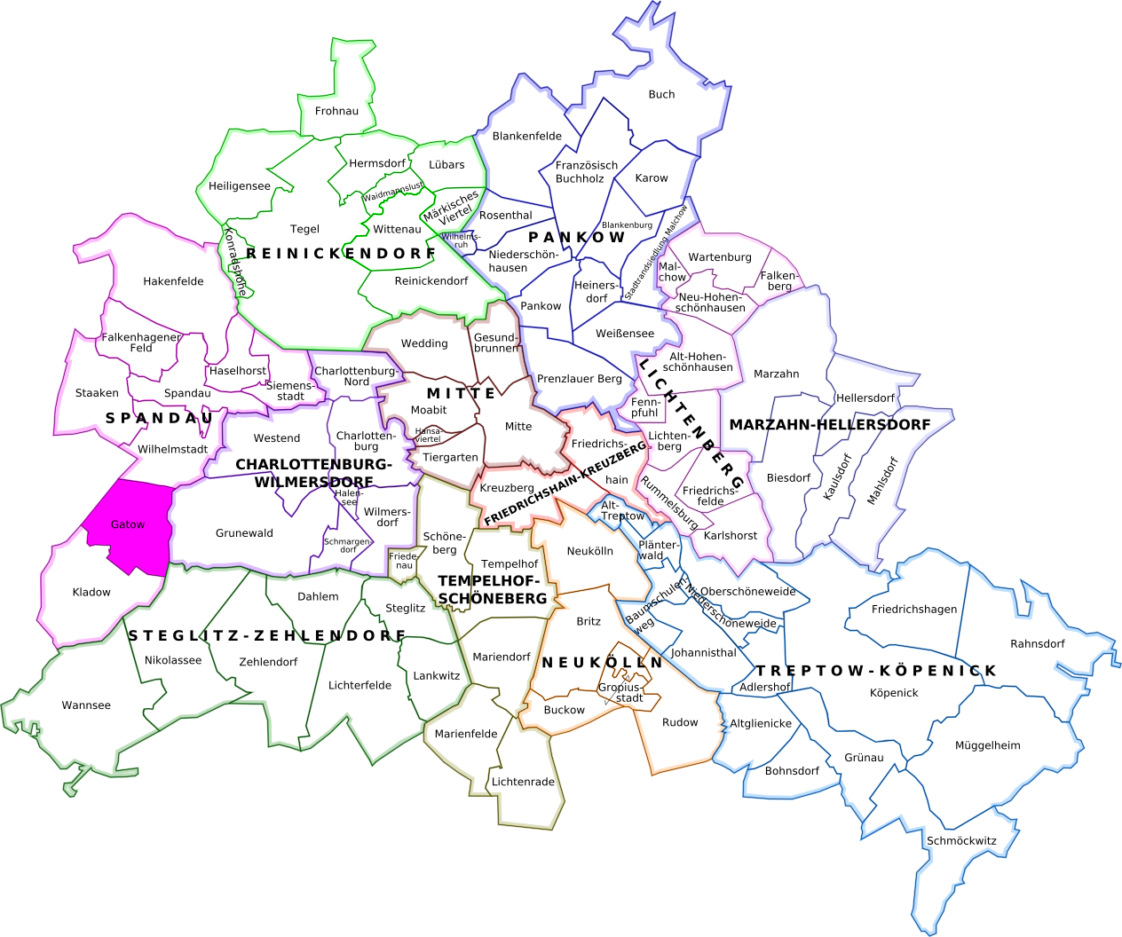 A map of the location of Gatow in Berlin